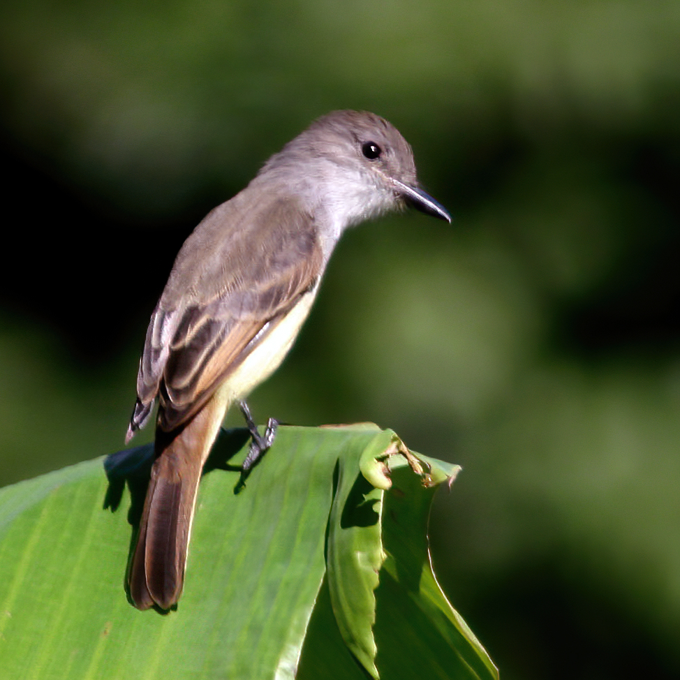 Lesser Antillean Flycatcher (Myiarchus oberi) photographed in its natural habitat in the Morne Diablotins National Park in Dominica. Guide was local expert 'Dr Birdy' Bertrand Baptiste.